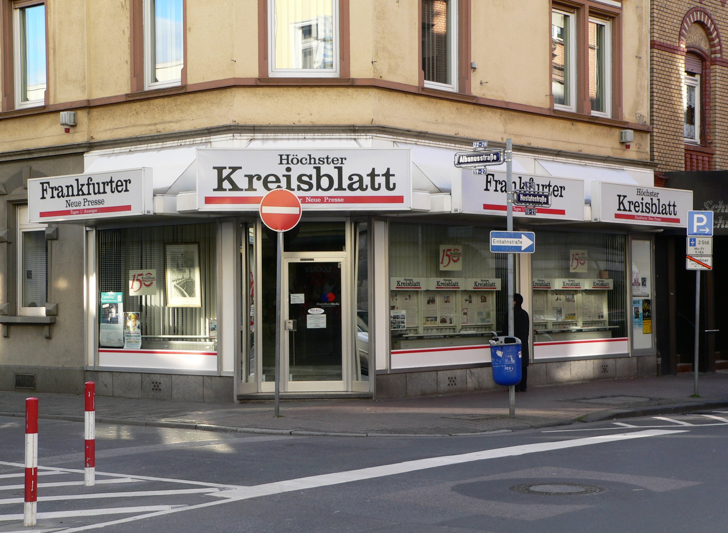 Office of the Höchster Kreisblatt (newspaper) in Frankfurt-Höchst